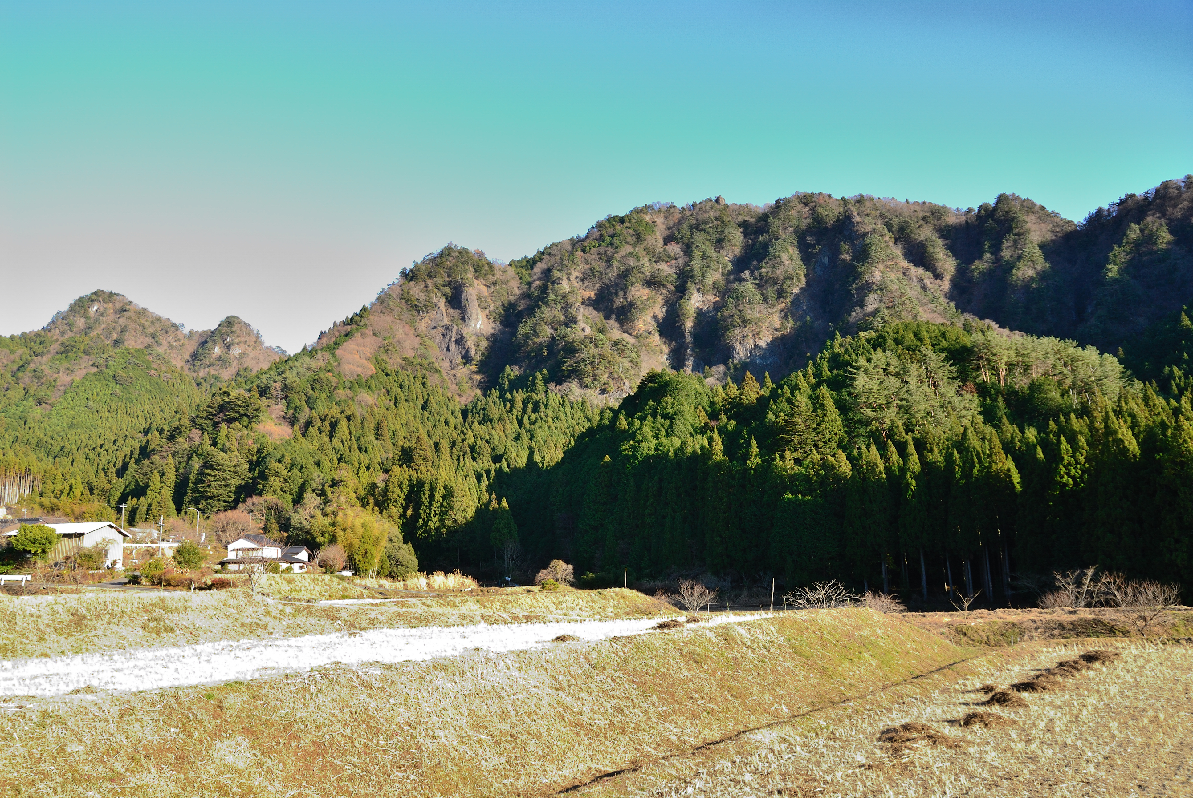 Mount Iwakoya seen from the west.